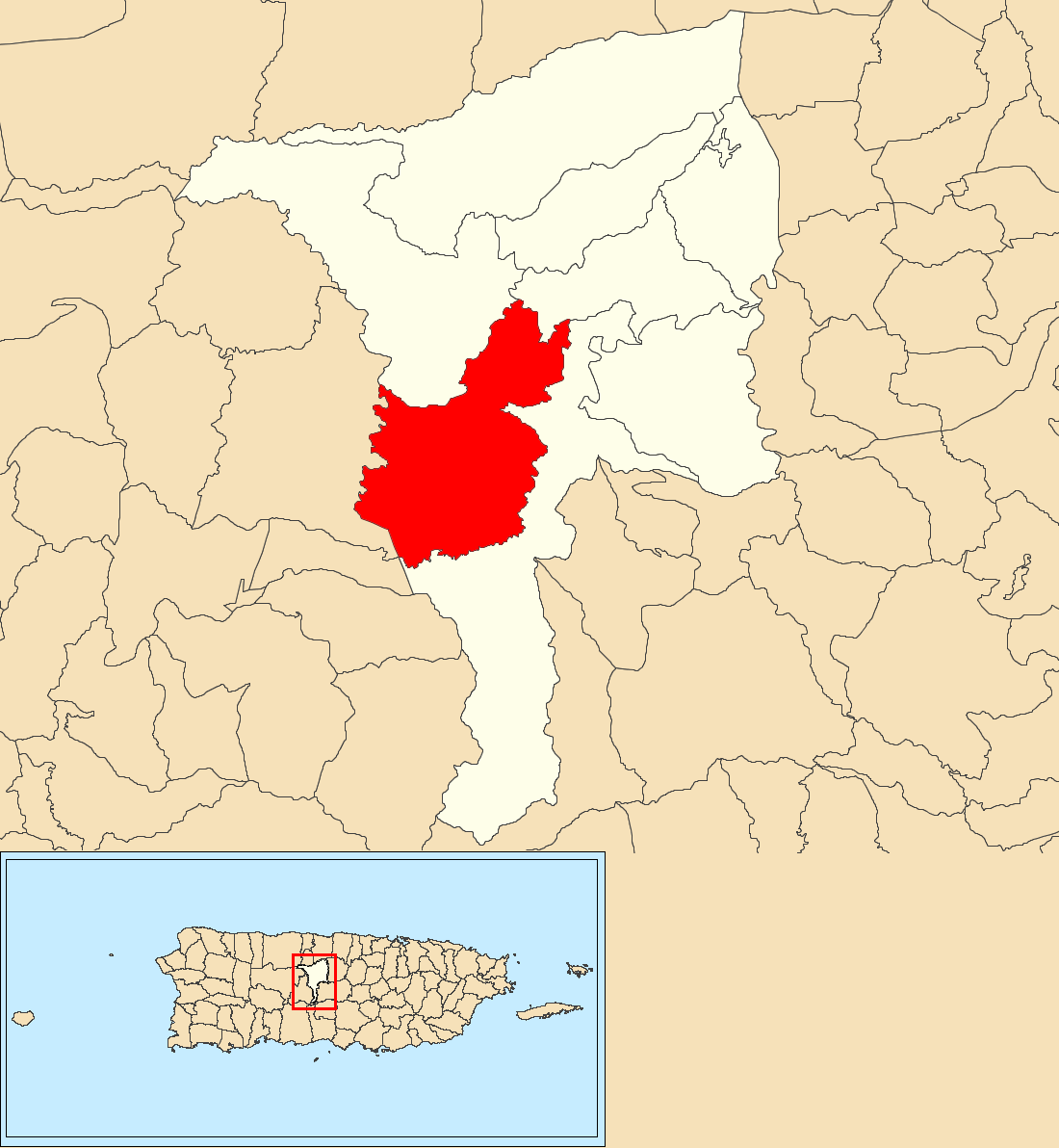 Cialitos, Ciales, Puerto Rico locator map